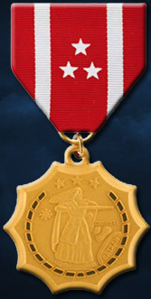 Philippine Defense Medal obverse